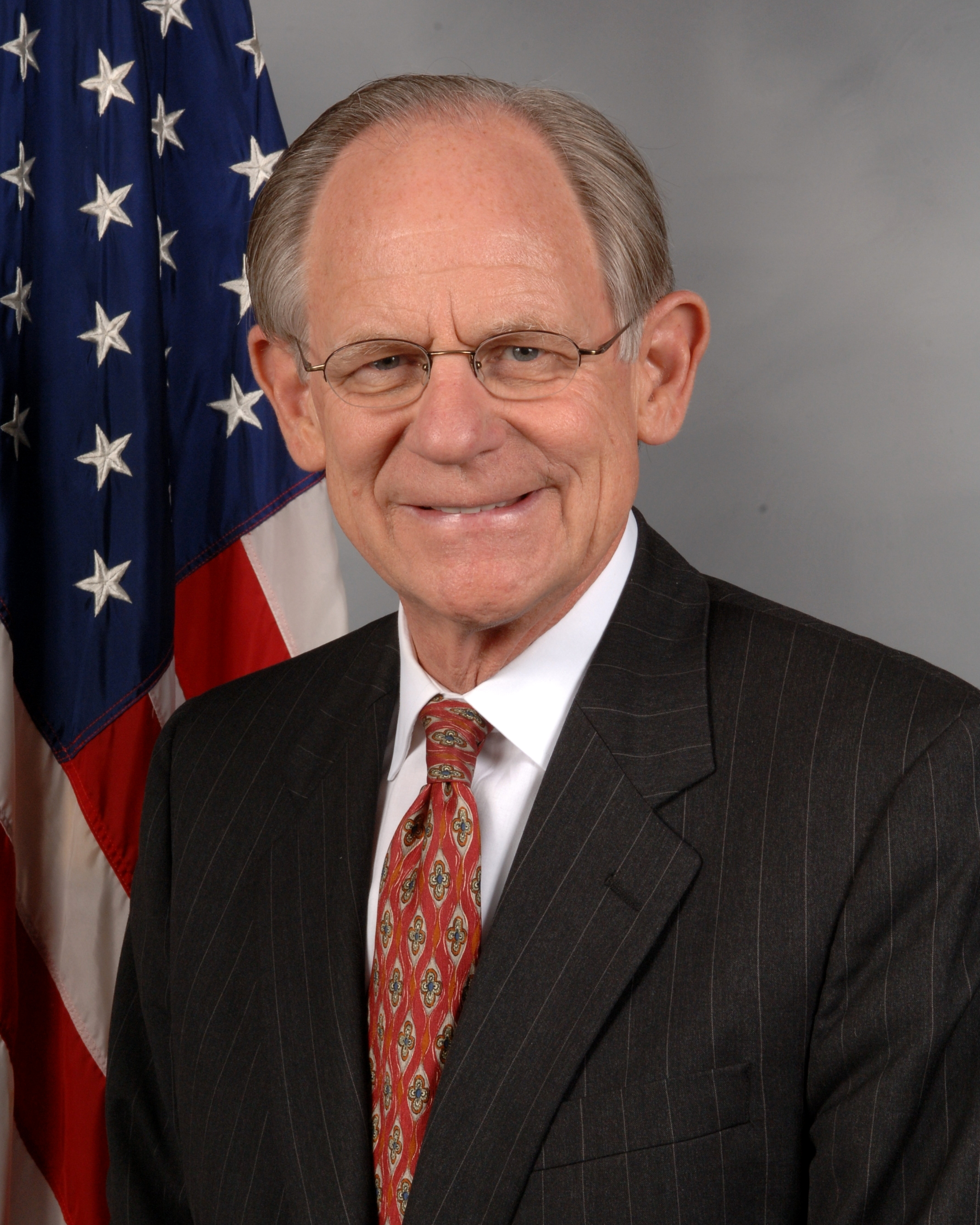 U.S. Representative Mike Castle official portrait